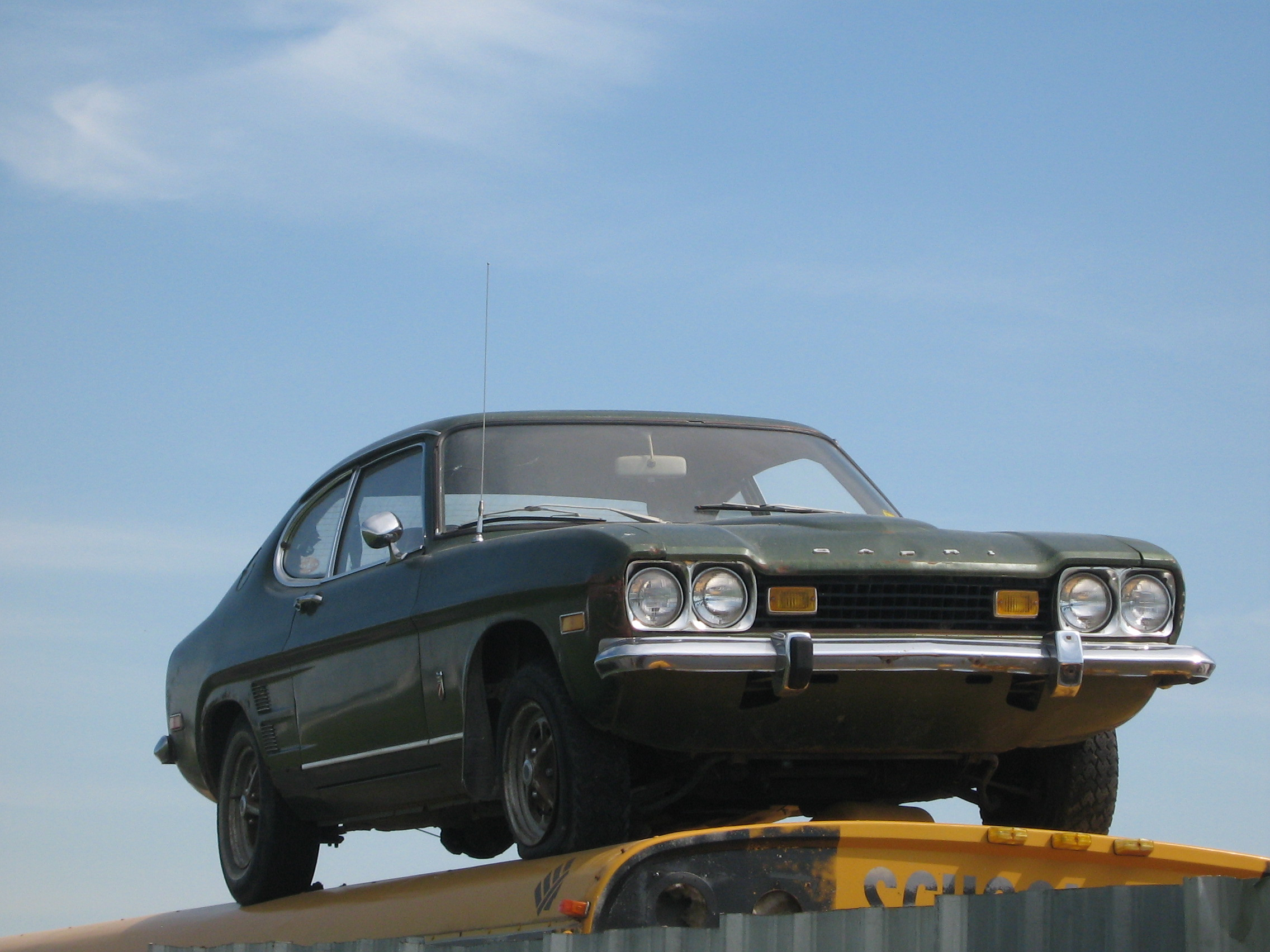 The 2.0L Mercury Capri is an early 70s one - very rare to see. This one looked in not bad shape.